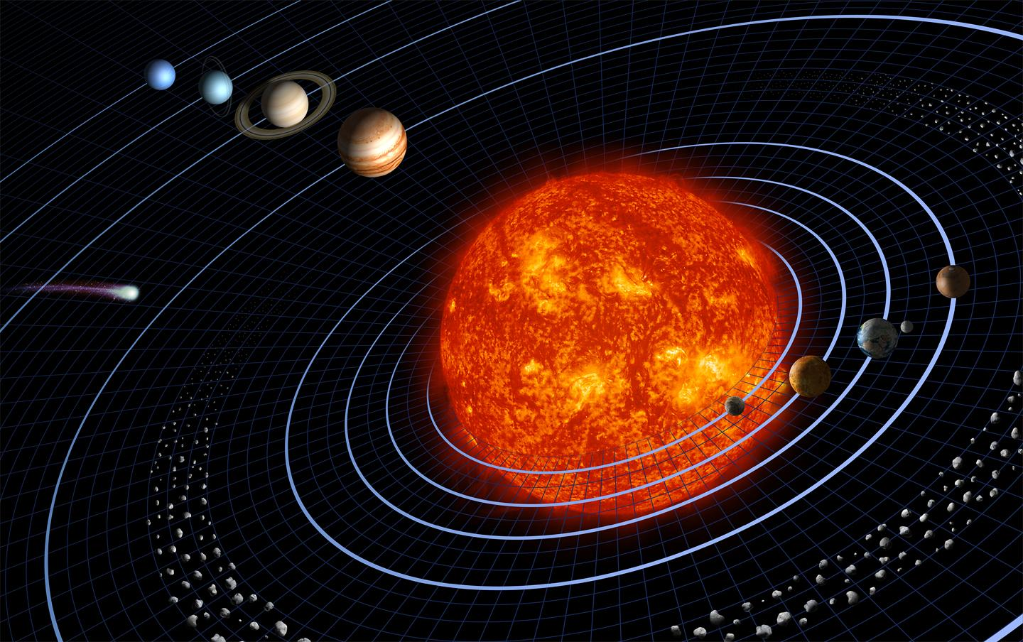 The Solar System, (not to scale - actually very very far from the real scale - creating a scale image of the solar system with detailed representations of all its major bodies would not be feasible - see solar system model ) showing the Sun, Inner Planets, Asteroid Belt, Outer Planets, and a comet.